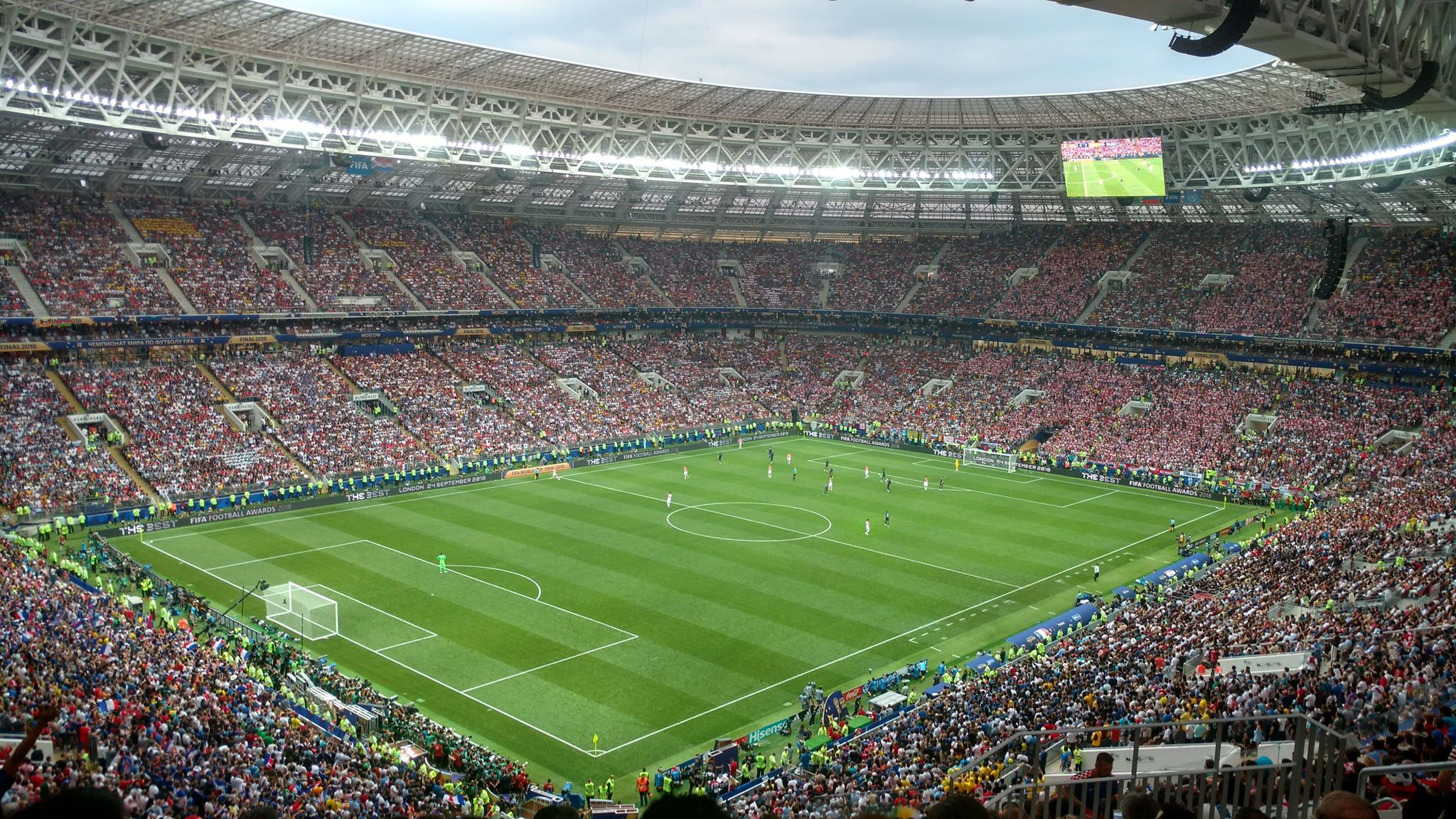 Picture of the 2018 World Cup Final between France and Croatia. This picture was taken during the 1st half of the match.